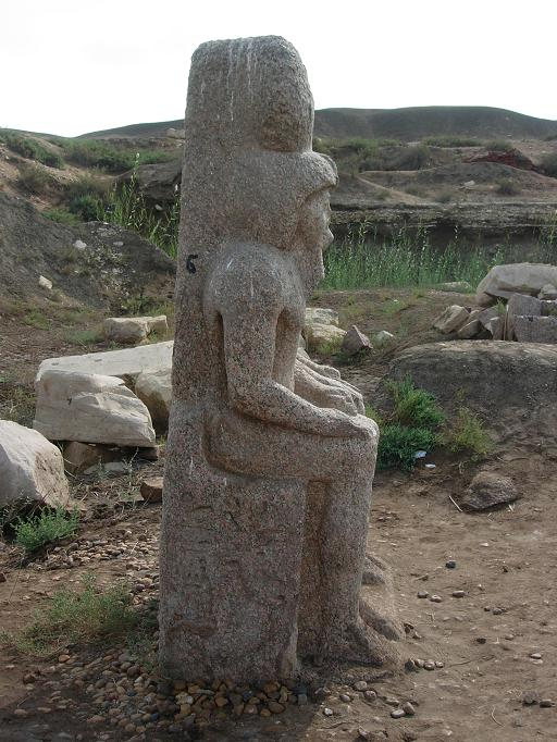 Ruins of Buto. Group statue of Ramses II and Wadjet